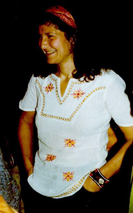 Photo of mountaineer Arlene Blum taken in 1977 during a fundraising event at Marmot Mountain Works in Berkeley, CA, USA for the 1978 American Women's Himalayan Expedition to climb Annapurna.